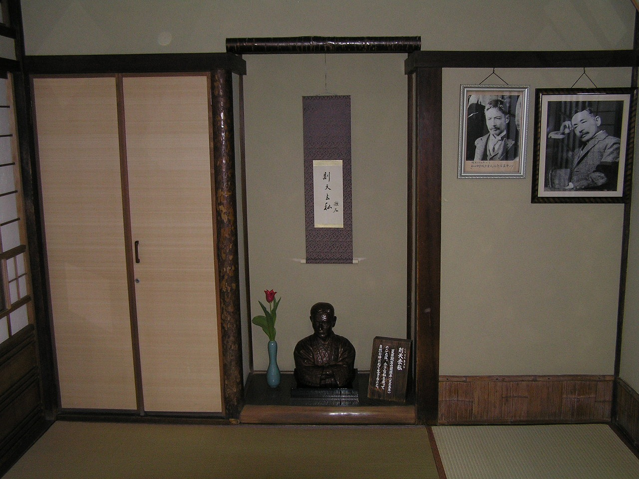 dogo-onsen-natsume,soseki's room